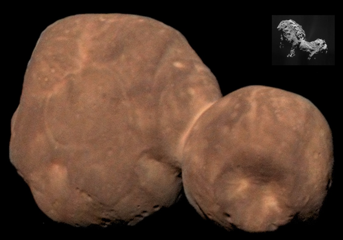 This image compares the primordial Kuiper Belt Object 486958 Arrokoth (Image NASA/JHUAPL) with the evolved Jupiter Family Comet 67P/Churyumov-Gerasimenko (Image ESA/Rosetta/NAVCAM). The two images are presented in their approximate relative sizes.